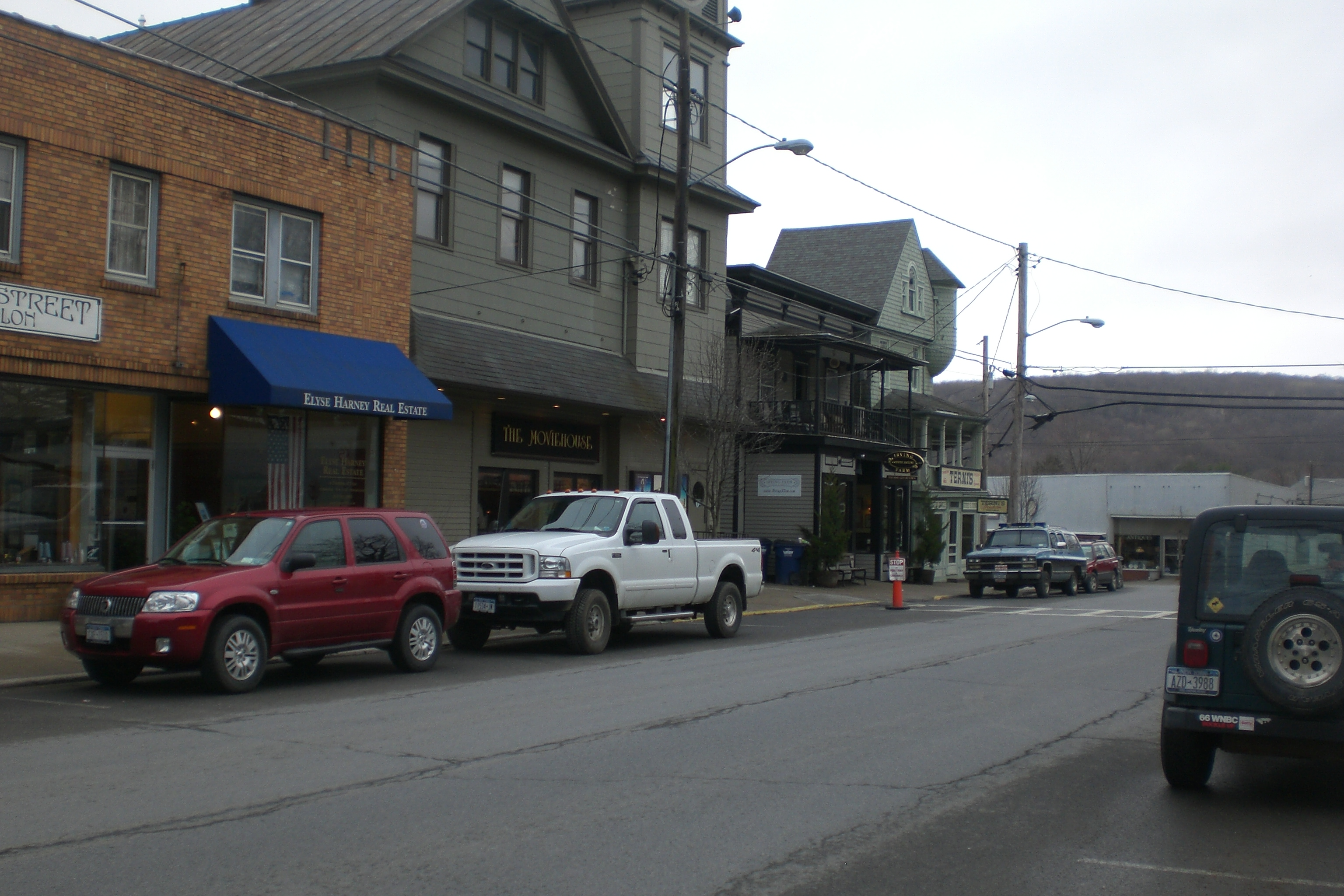 Picture of Millerton